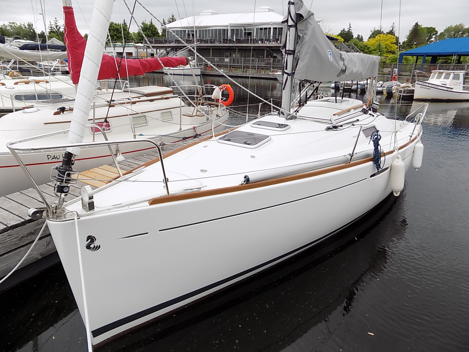 A Beneteau First 25S sailboat named Gracie.